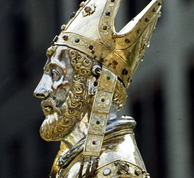 Portrait bust allegedly containing the skull of Saint Servatius, in the treasury of the Basilica of Saint Servatius, Maastricht, Netherlands. Gilded silver bust donated by Alessandro Farnese, Duke of Parma, as a replacement of an older bust that was destroyed by the Spanish troops in the sack of Maastricht, 1579.